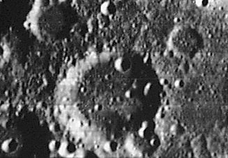 Breislak crater